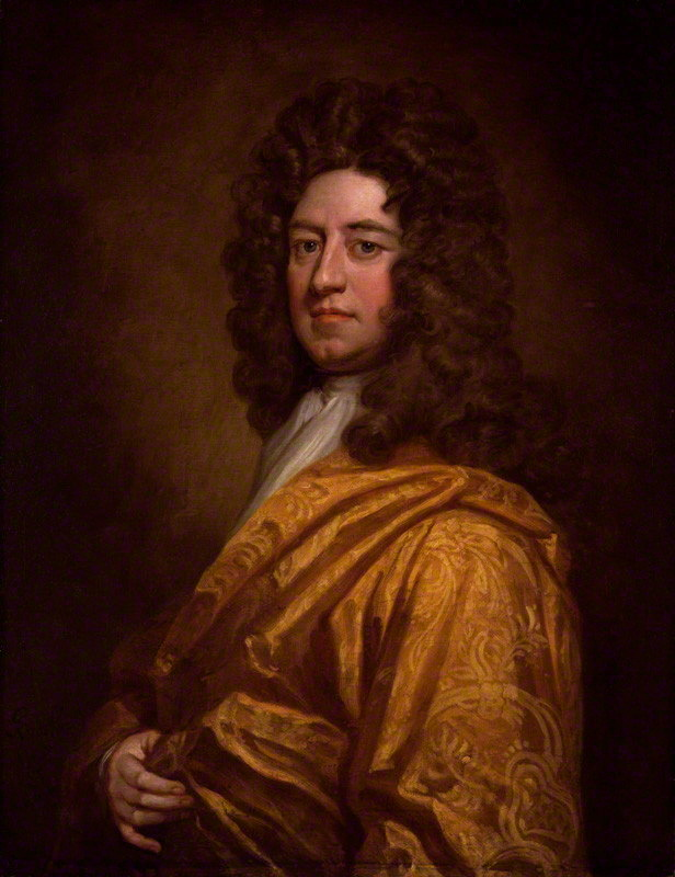 George Stepney (1663-1707) british diplomat